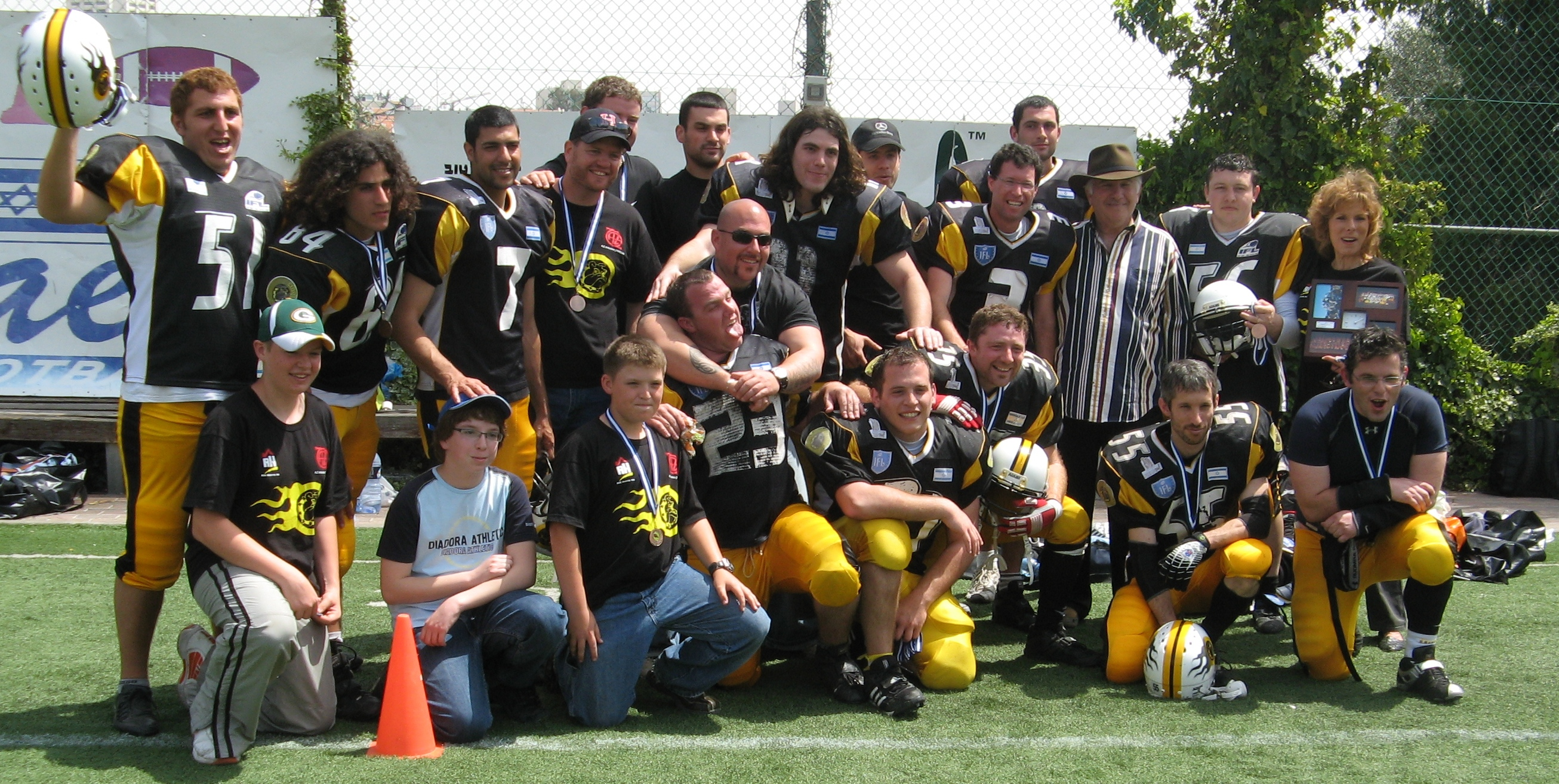 Haifa "Real Housing" Underdogs players after winning the 3rd place of the IFL for 2009